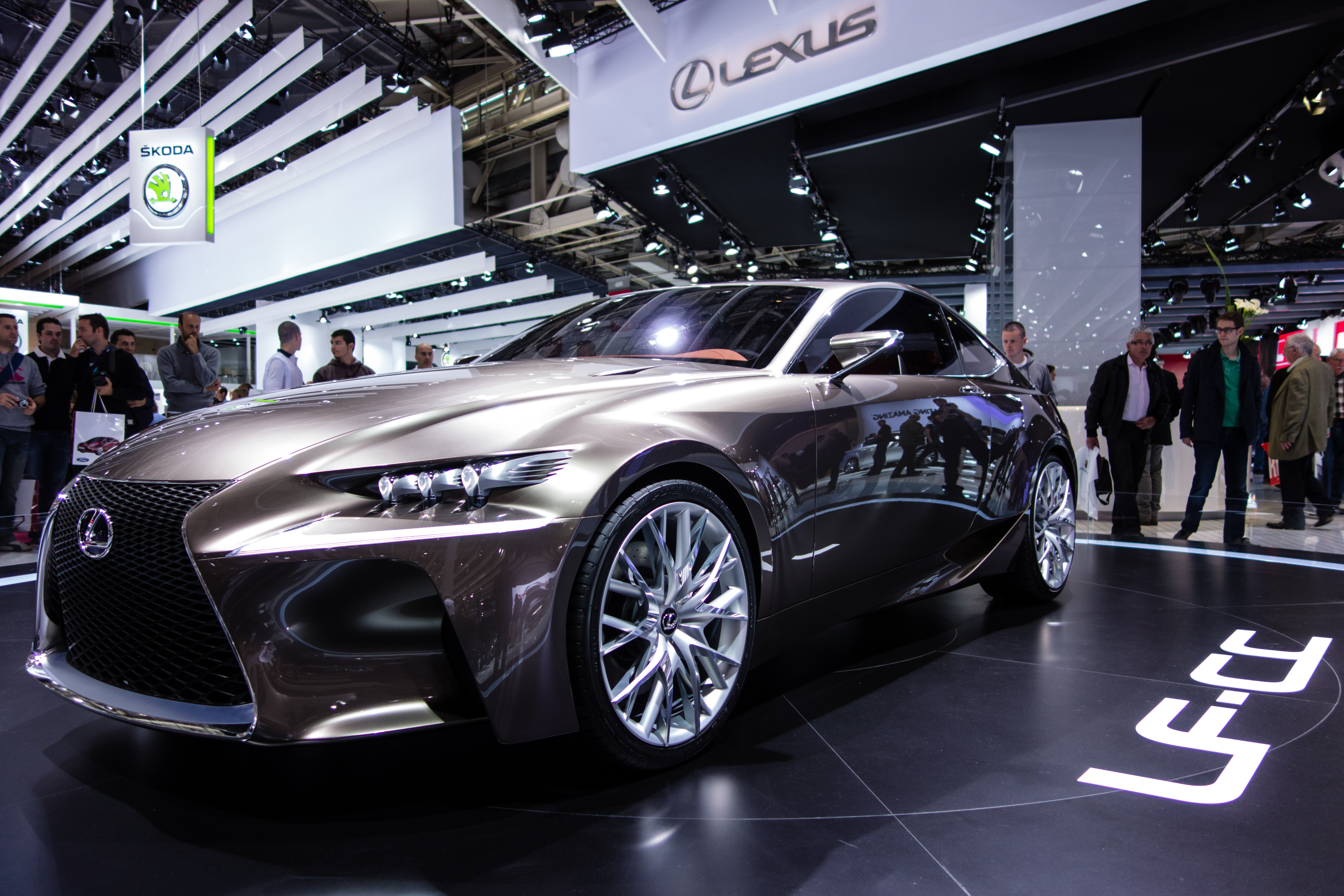 Mondial De L'automobile Paris 2012 | Paris Motor Show 2012